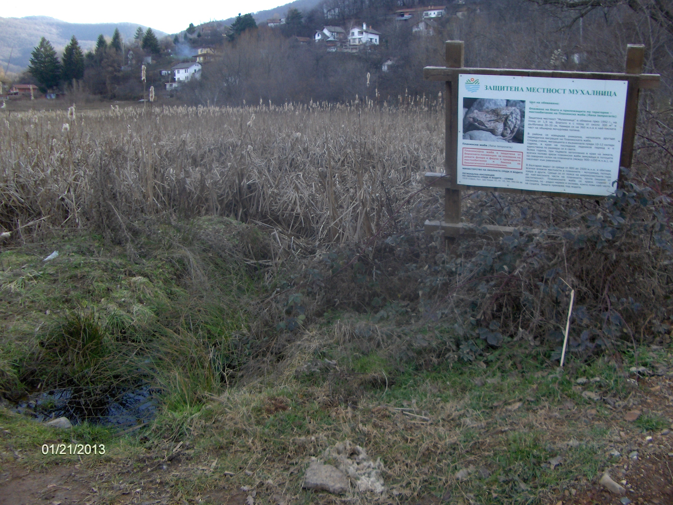 "Muhalnitza"